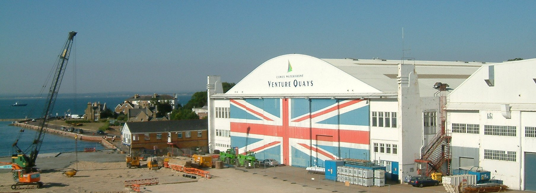 Cowes et East-Cowes, Island of Wight, UNITED KINGDOM